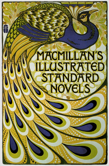 Macmillan's Illustrated Standard Novels